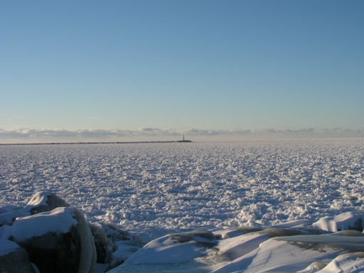 Source: Photo by User:GandZ